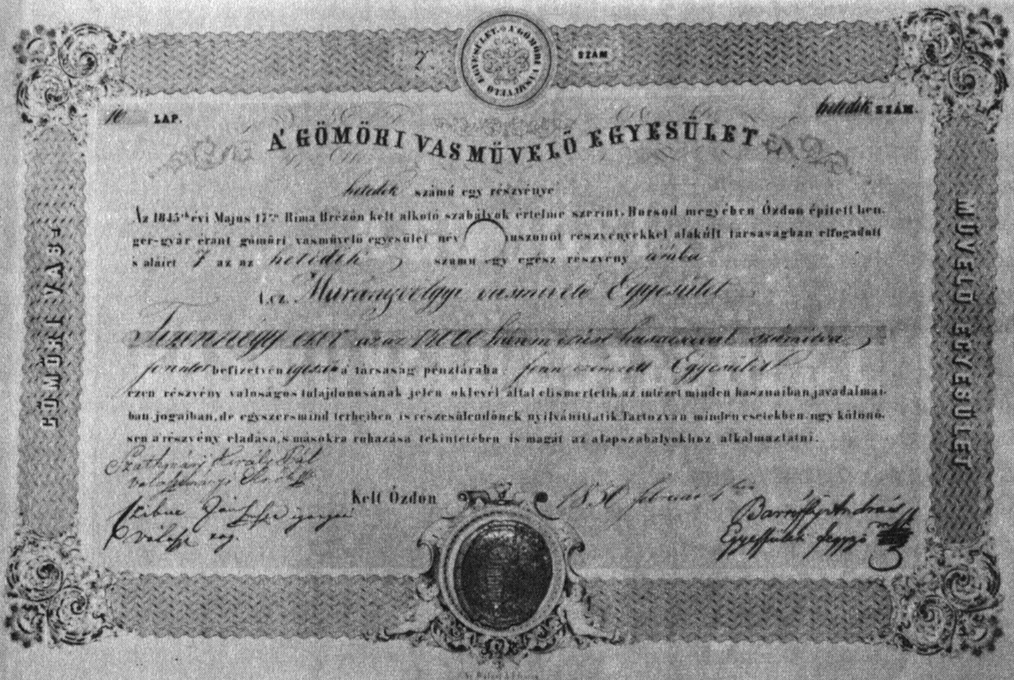 Share of Gömöri Vasművelő Egyesület, 1850